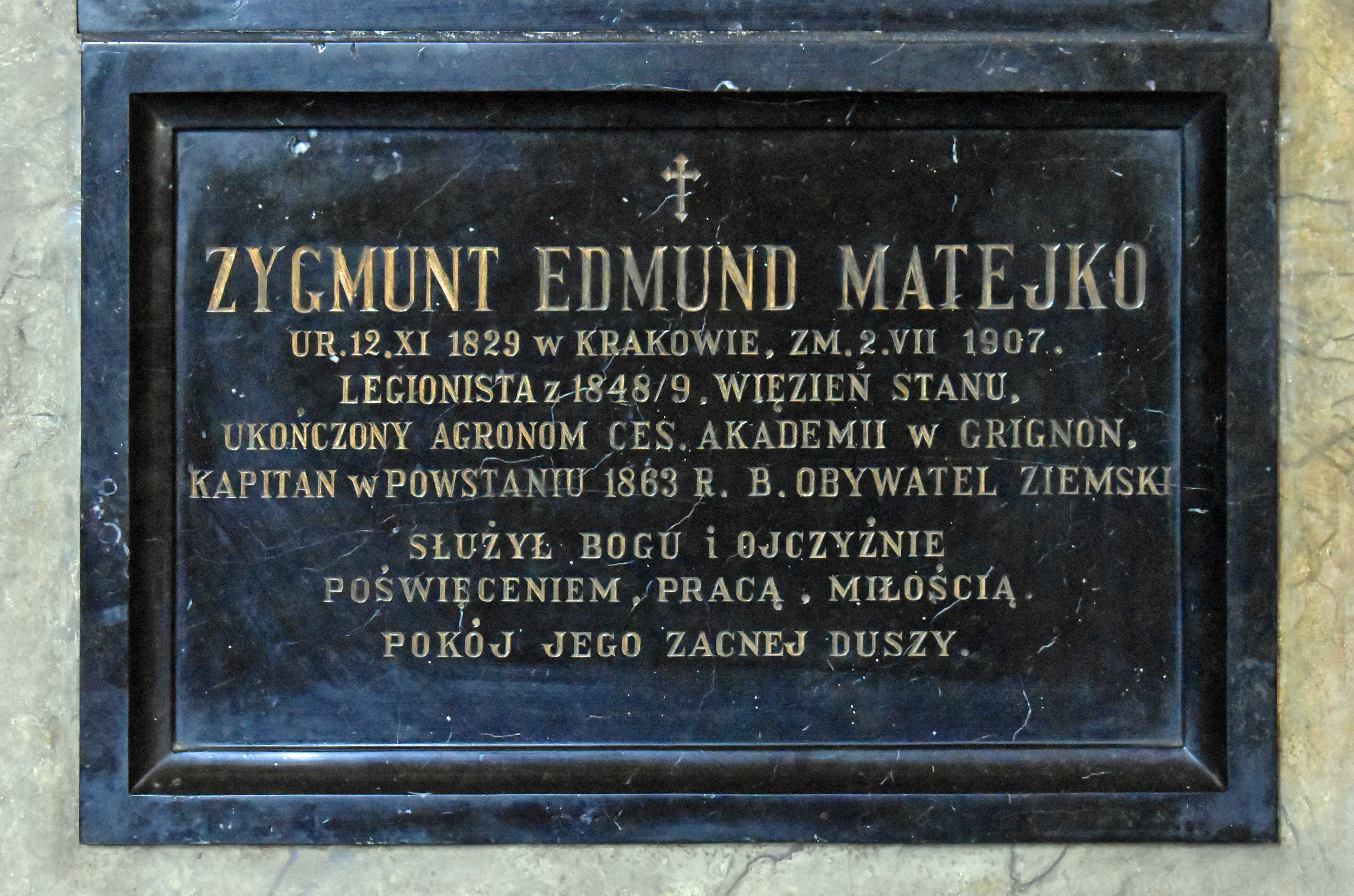 Commemorative plaque in tribute to Edmund Matejko (Polish insurgent 1948, 1963 and agronomist), Church of the Visitation of the Blessed Virgin Mary, 19 Karmelicka street, Krakow, Poland